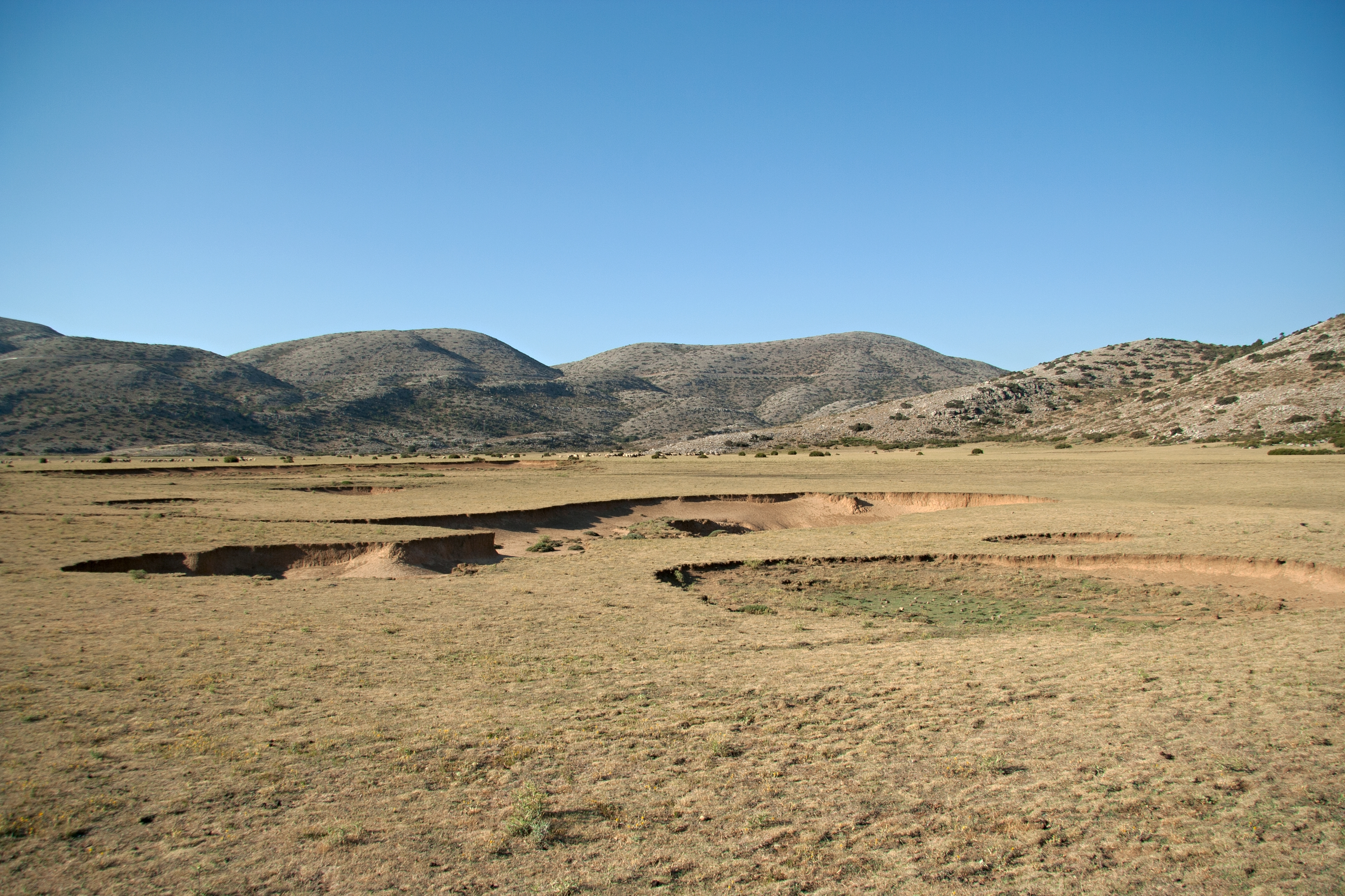 Nida’s Plateau, Crete.